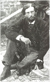 A portrait of Frank Calvert